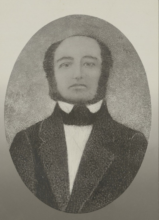 Mizis, Yehuda Leyb